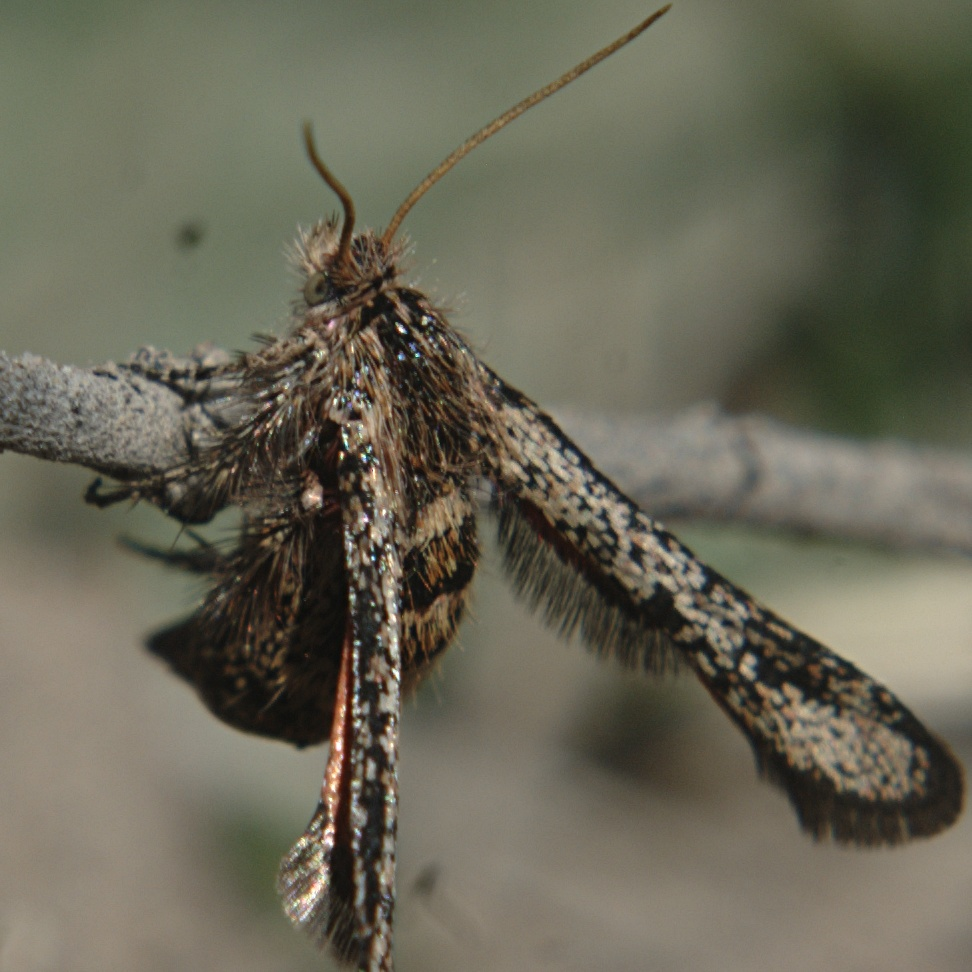 Female clearwing moth, Zenodoxus canescens, my yard, Española, New Mexico. Same individual as File:Zenodoxus canescens female1.jpg. Thanks to William H. Taft at for identification.